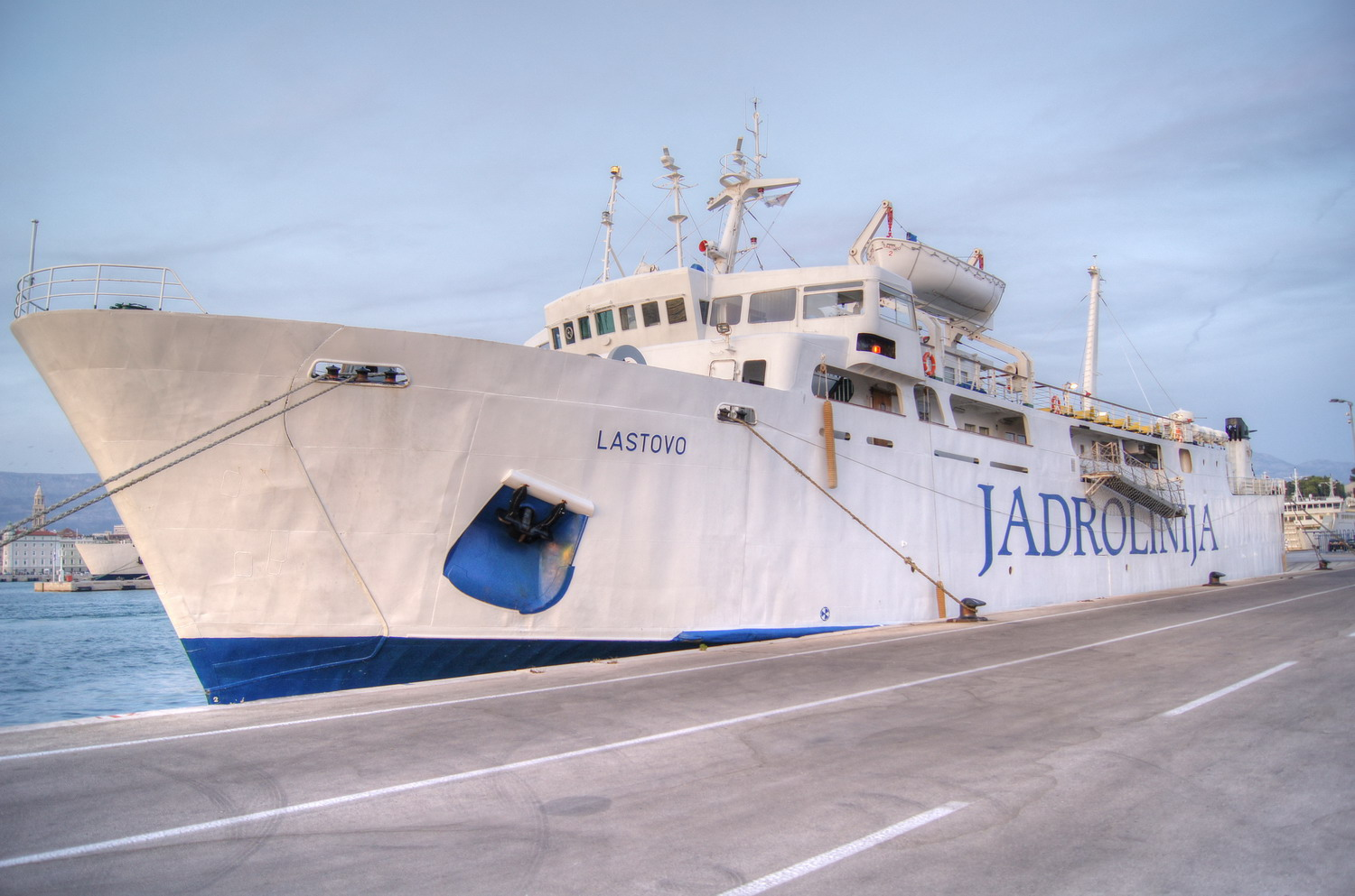 Lastovo (ship, 1970) IMO 7010717 moored in the port of Split, Croatia, 2011-09-18